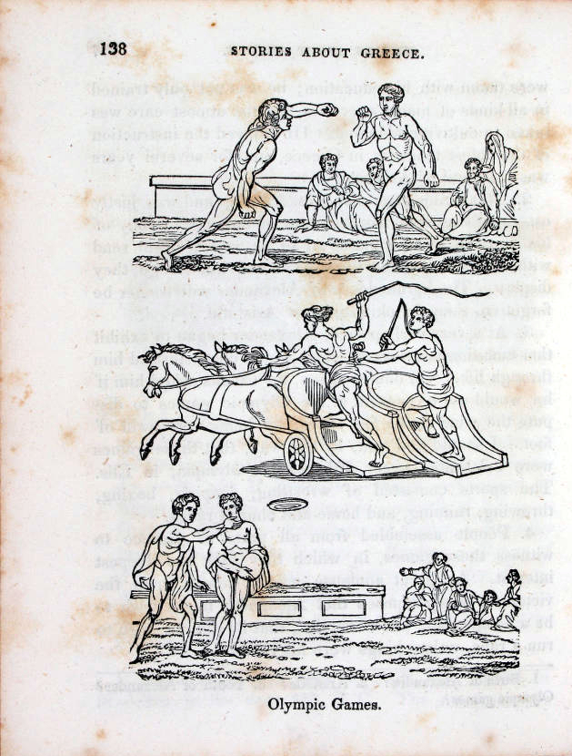 An engraving illustrating the Olympics. (cropped and auto-white balance)